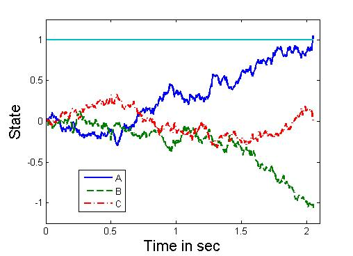 Sample paths for a three dimensional diffusion process. Horizontal axis is time. Vertical axis indicate values of each the three coordinates